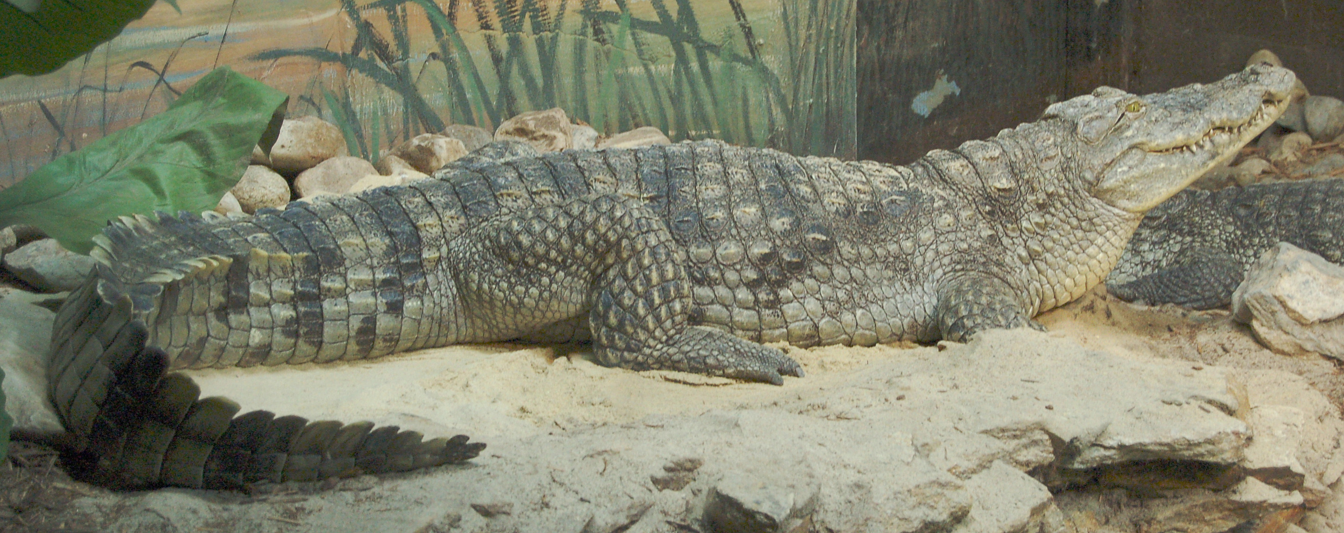 A side view photograph of an Nile crocodile (Crocodylus niloticus). Picture taken at the Philadelphia Zoo.